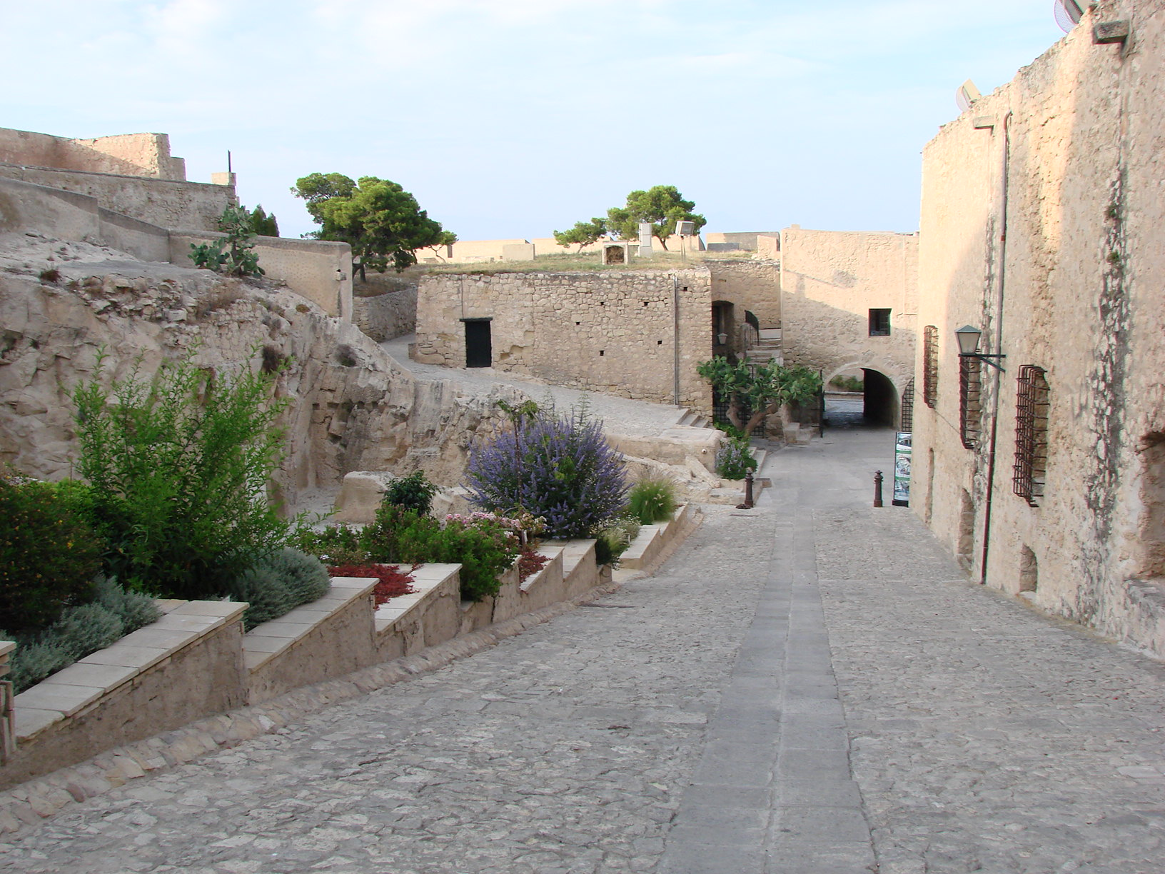 castello